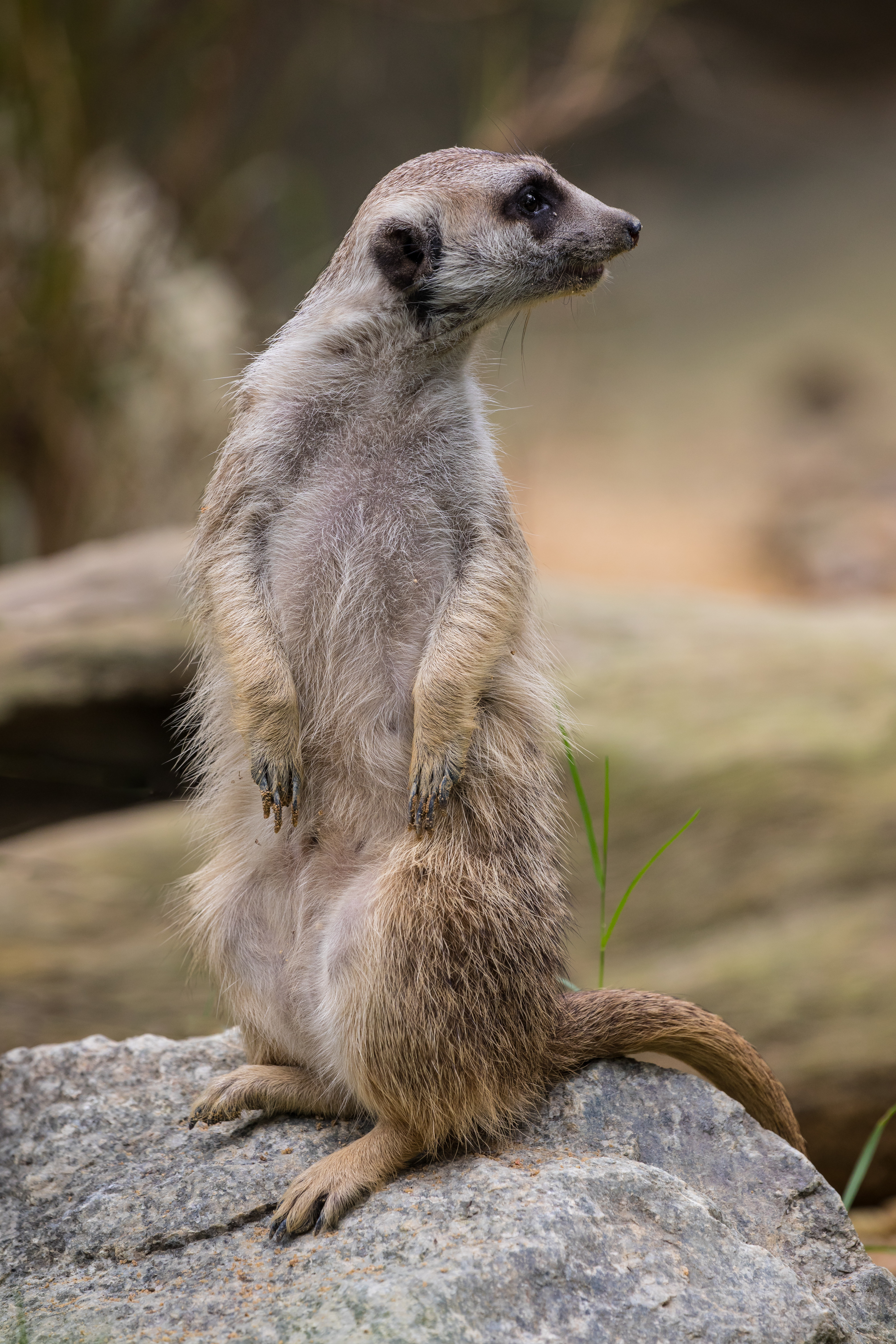 Standing Suricata suricatta (meerkat) looking behind, in the Singapore zoo